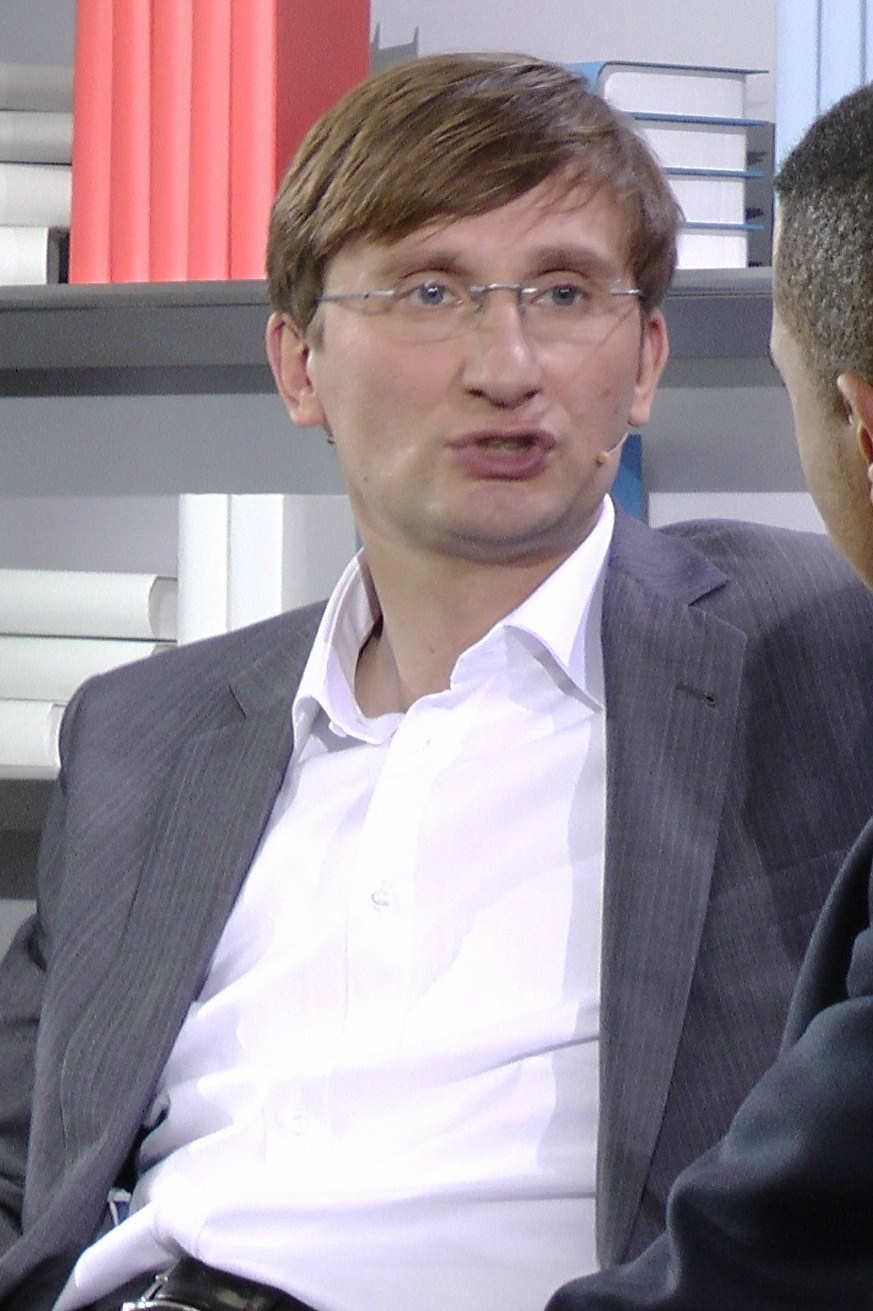 Sönke Neitzel, a German historian and author.